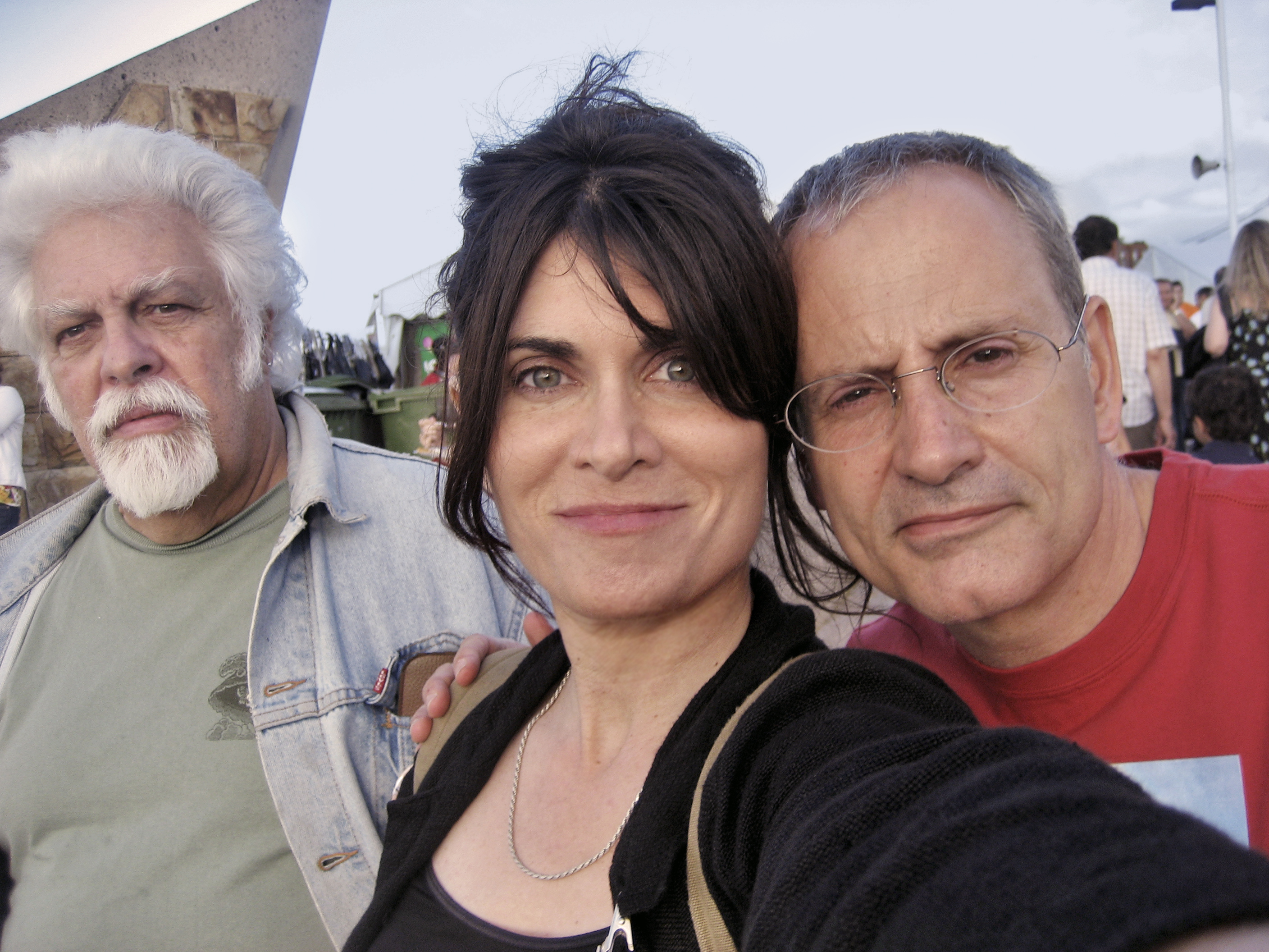 Phoebe Gloeckner (center) with cartoonists Spain Rodriguez and Angel de la Calle at La Semana Negra, Gijon, Spain 2009